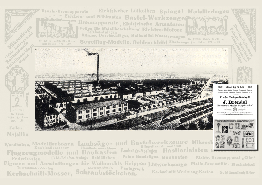 Firma J. Brndel advertisement